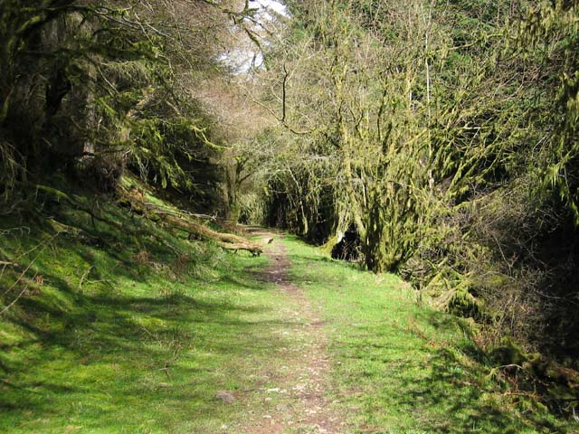 Trackbed of the Bryn Oer Tramroad. This tramway ran from Trefil to Talybont-on-Usk